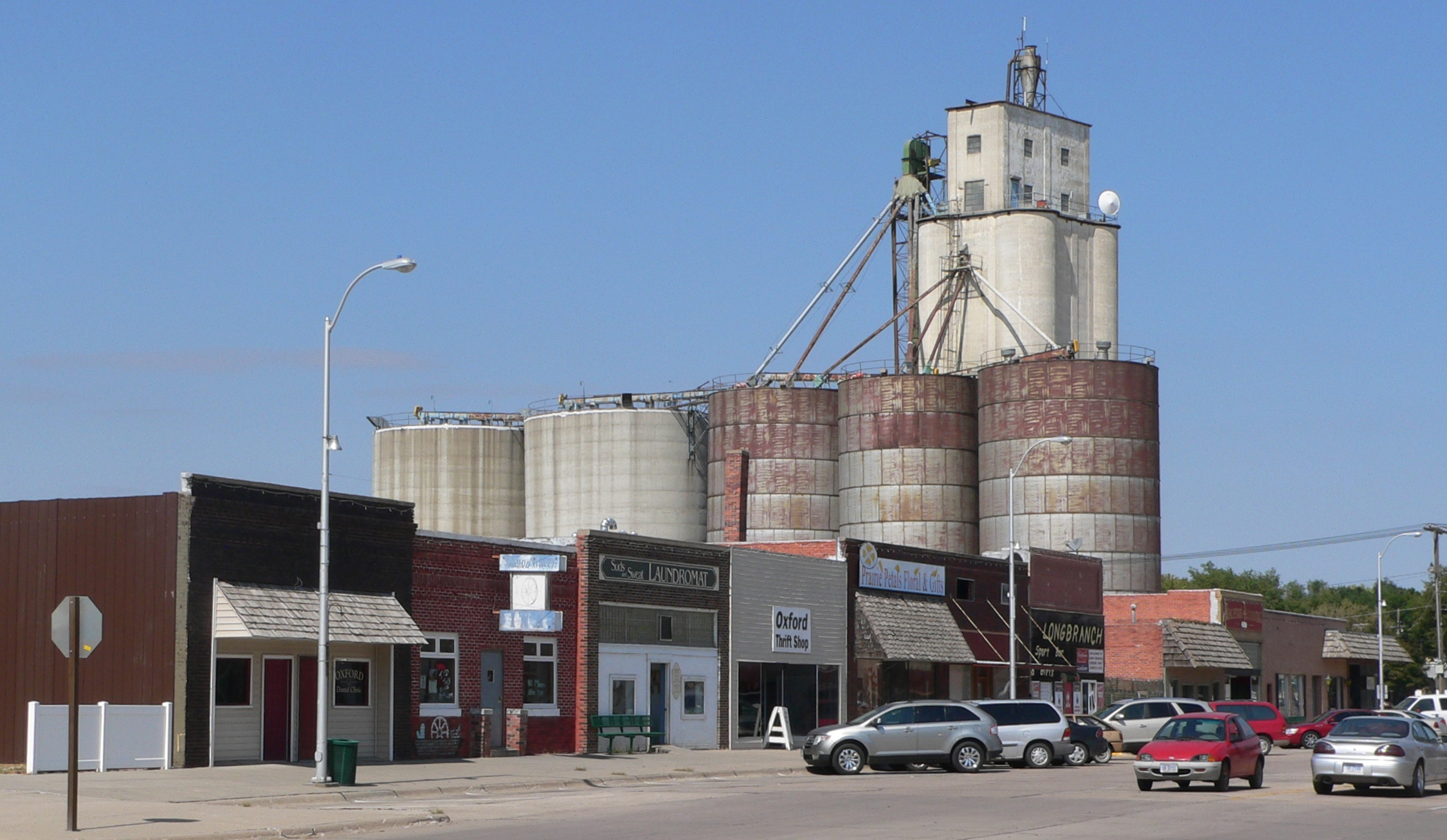 Downtown Oxford, Nebraska: west side of Ogden Street, looking northwest from about Cornwall Street.